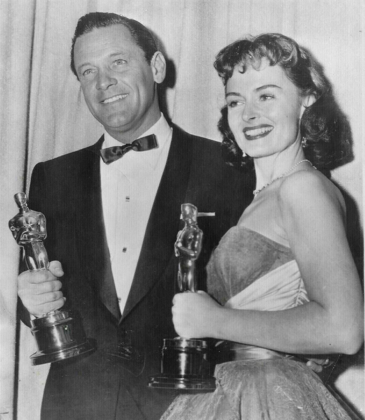 William Holden and Donna Reed hold their gold-plated Oscars, 1954